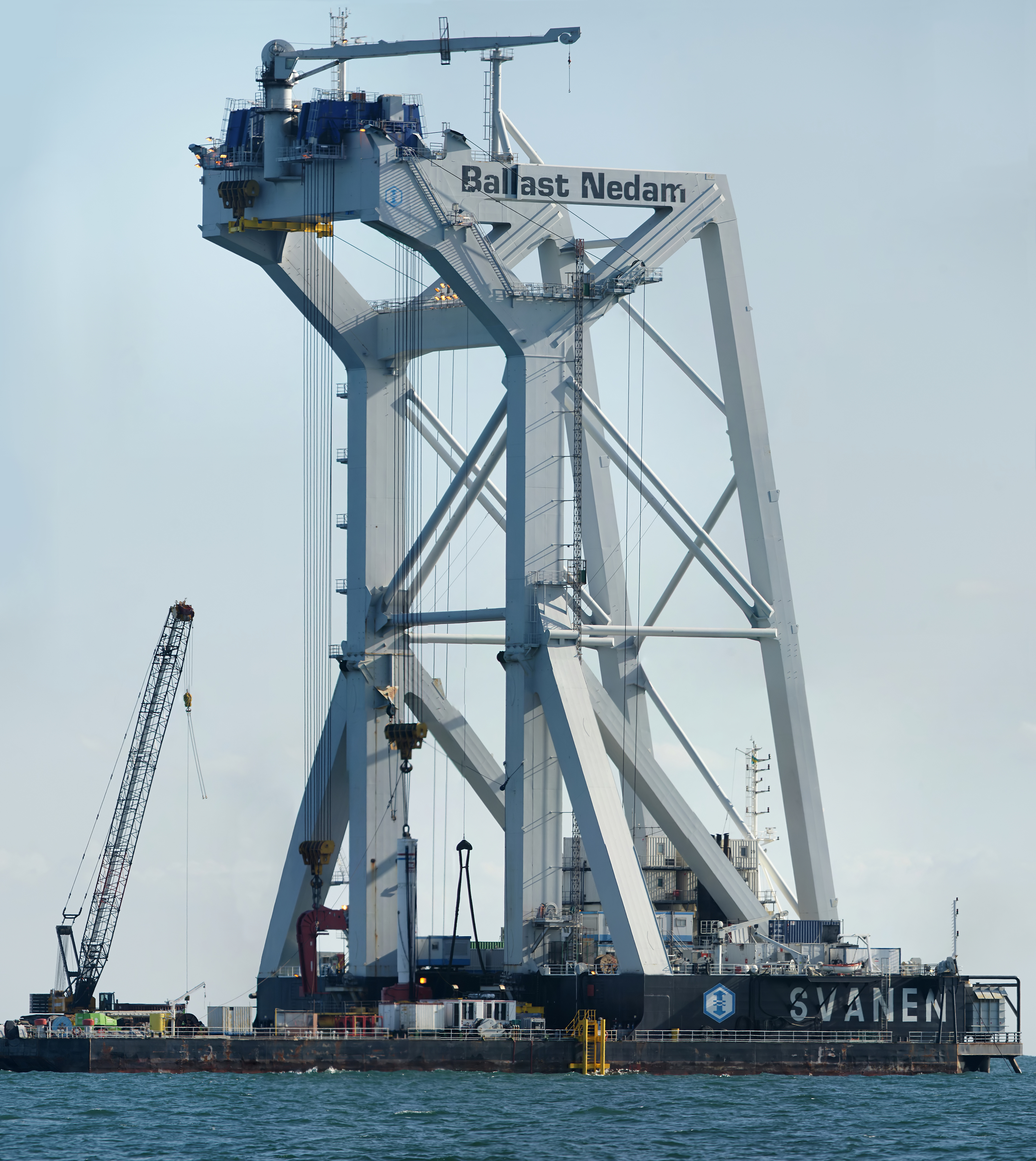 The Svanen is a self propelled heavy lift catamaran from Ballast Nedam Offshore. It is here helping in the construction of a windmill park on the Bligh Bank, off the Belgian coast.